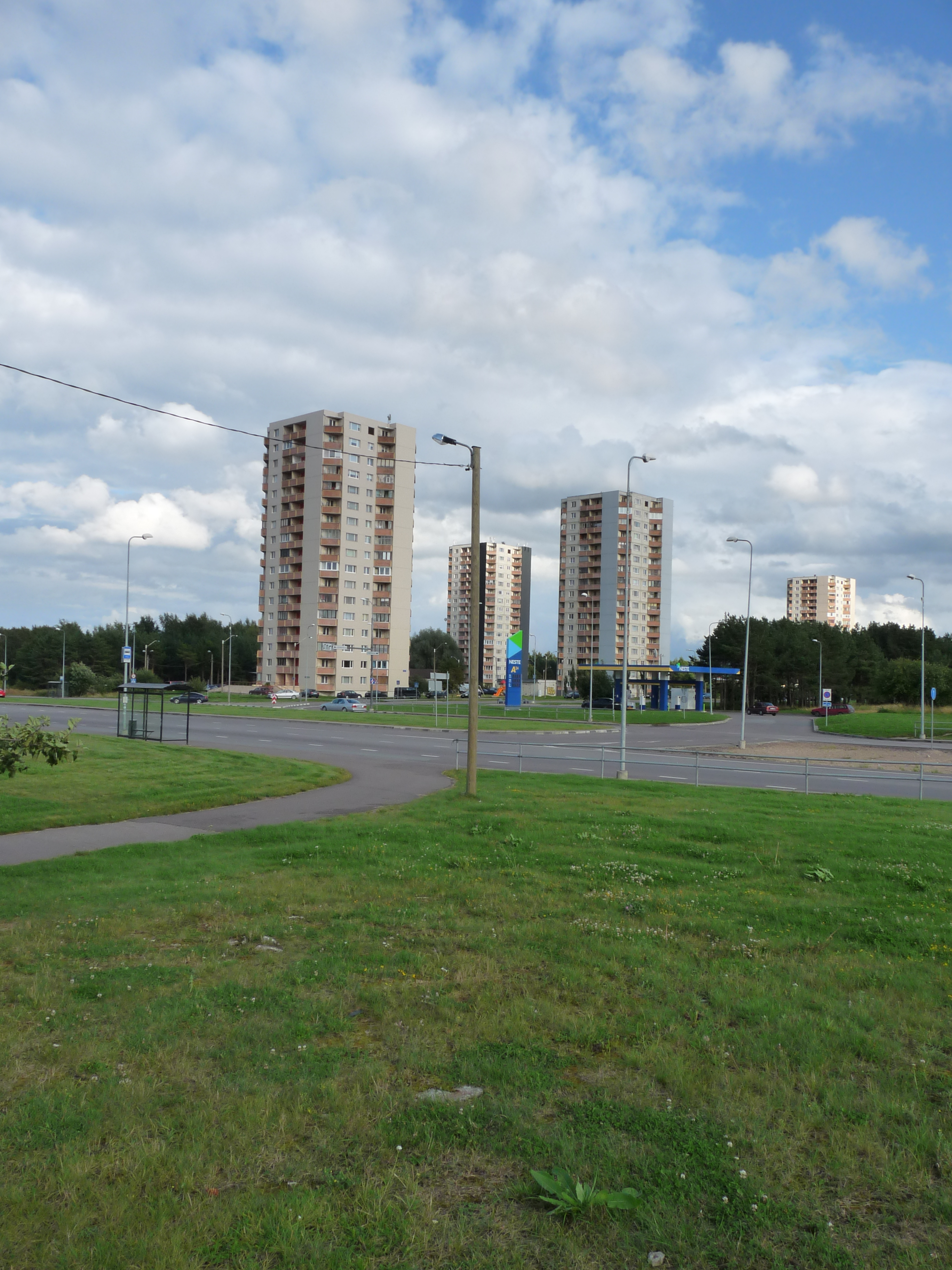 Buildings at Ümera street in Lasnamäe (Seli subdistrict)